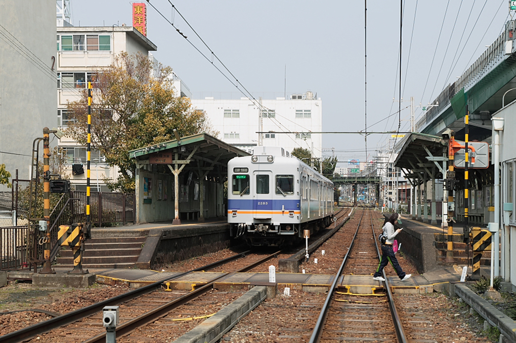 Nankai Electric Railway Ashiharachō Station.